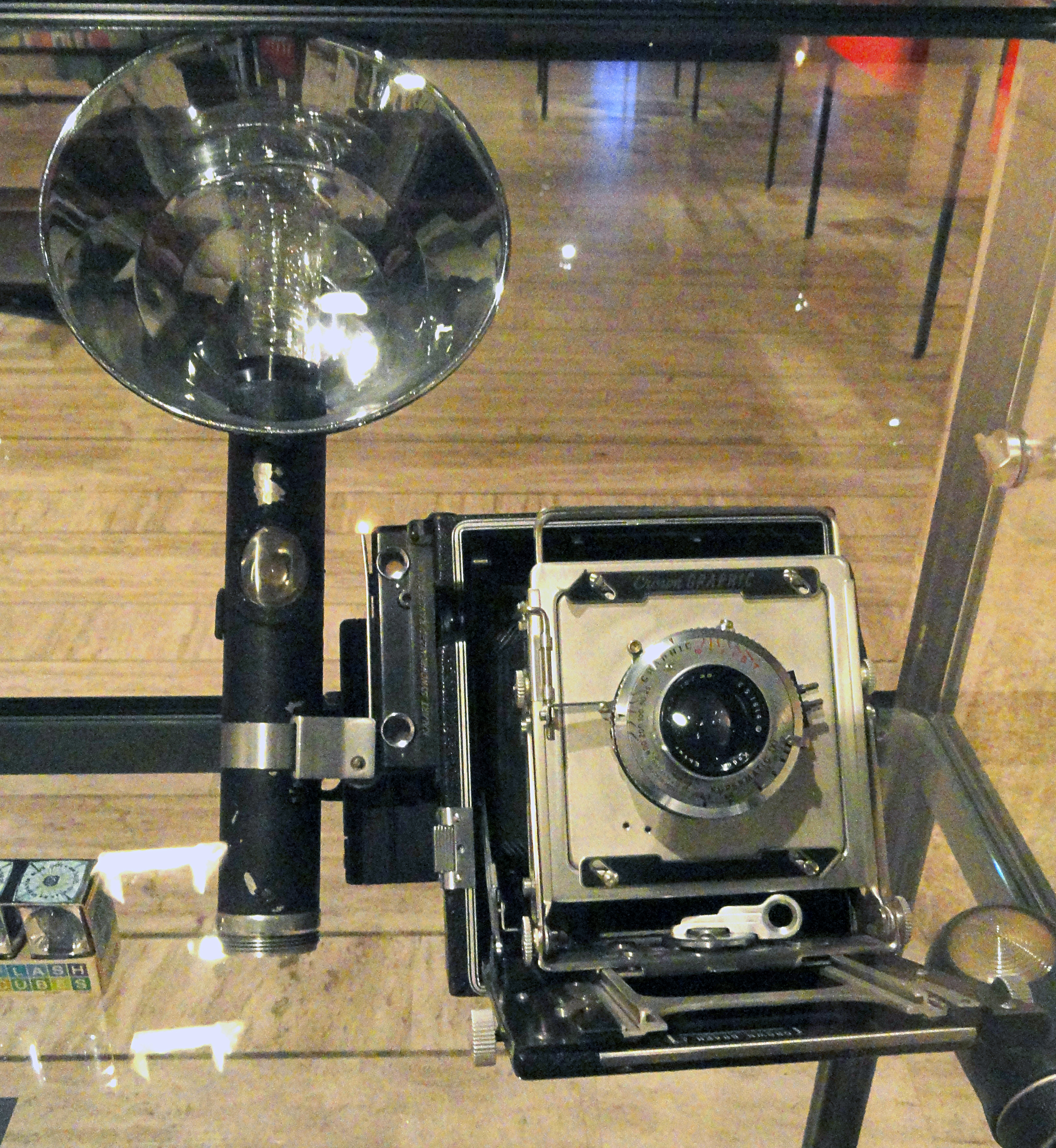 Graflex Pacemaker Crown Graphic flash, 1947. Exhibit in the Musée Nicéphore Niépce, 28 Quai Messageries, Saône-et-Loire, France. There were no restrictions on photography in the museum.